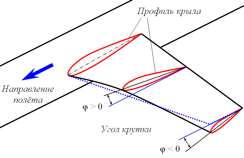 Washout scheme